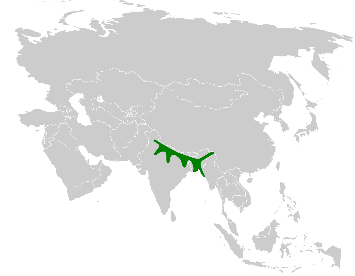 Mirafra assamica distribution map; using BlankMap-World6.svg, based on